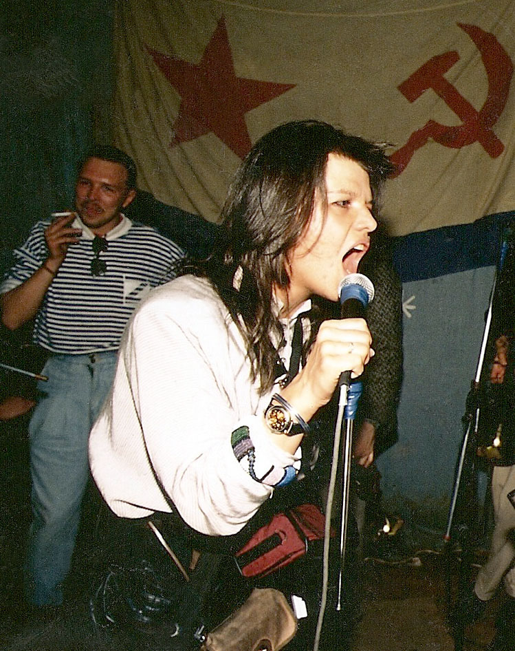 Jana Schneider, actress and photojournalist, sings in a studio in Moscow's Gorky Park, in the summer of 1990, as the then rising rock star Garik Sukachev looks on. Jana was photographing the rehearsal of Sukachev's band "Brigada S", and joined the musicians. Photo by Mikhail Evstafiev